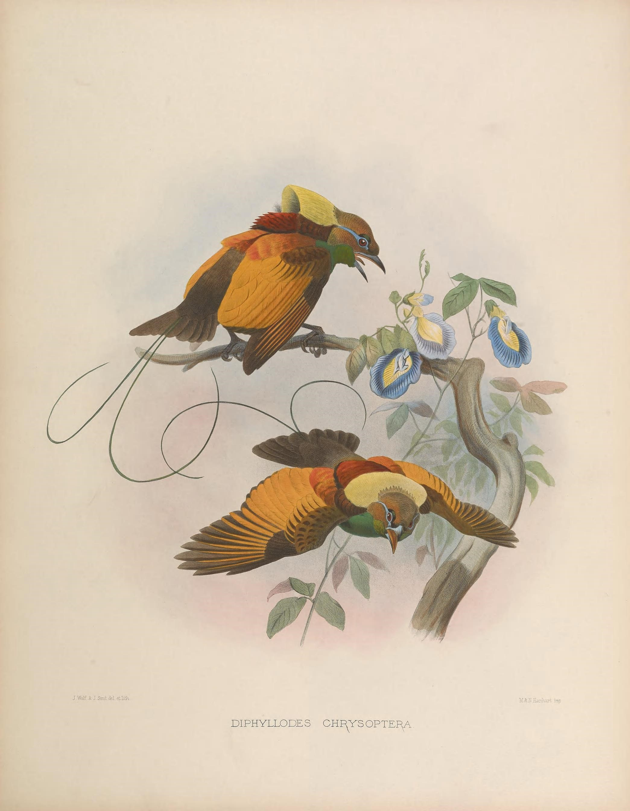 Drawing of 1873, unsure about the species.